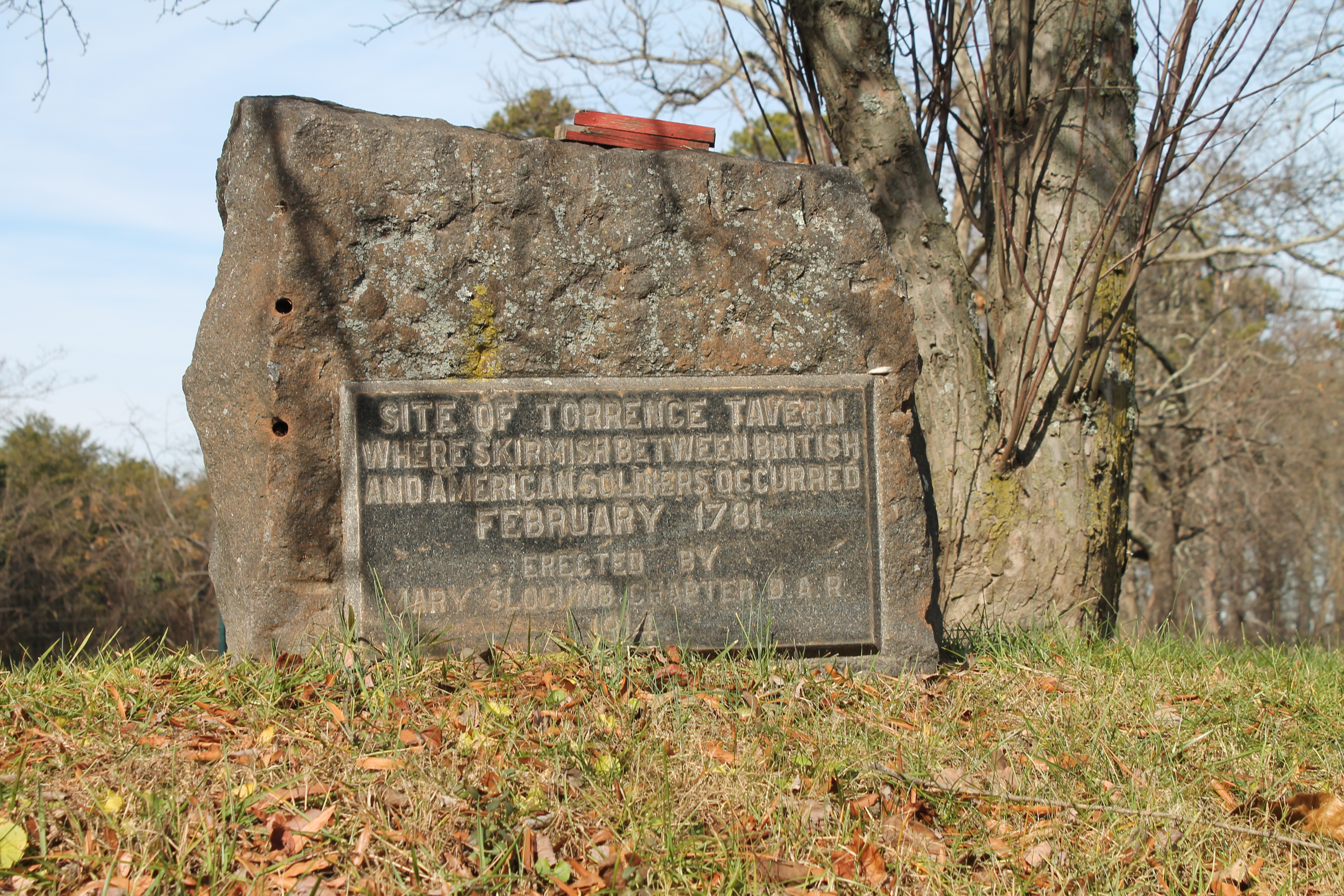 A stone marker commemorating the Battle of Torrence's Tavern, erected by the Daughters of the American Revolution in 1914. The marker sits on the west-bound shoulder of Langtree Road in Mount Mourne, North Carolina, about 100 years from the intersection with N.C. Highway 115.